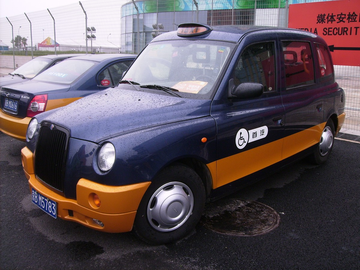 London Taxi in Beijing since 2008 Olympic Games